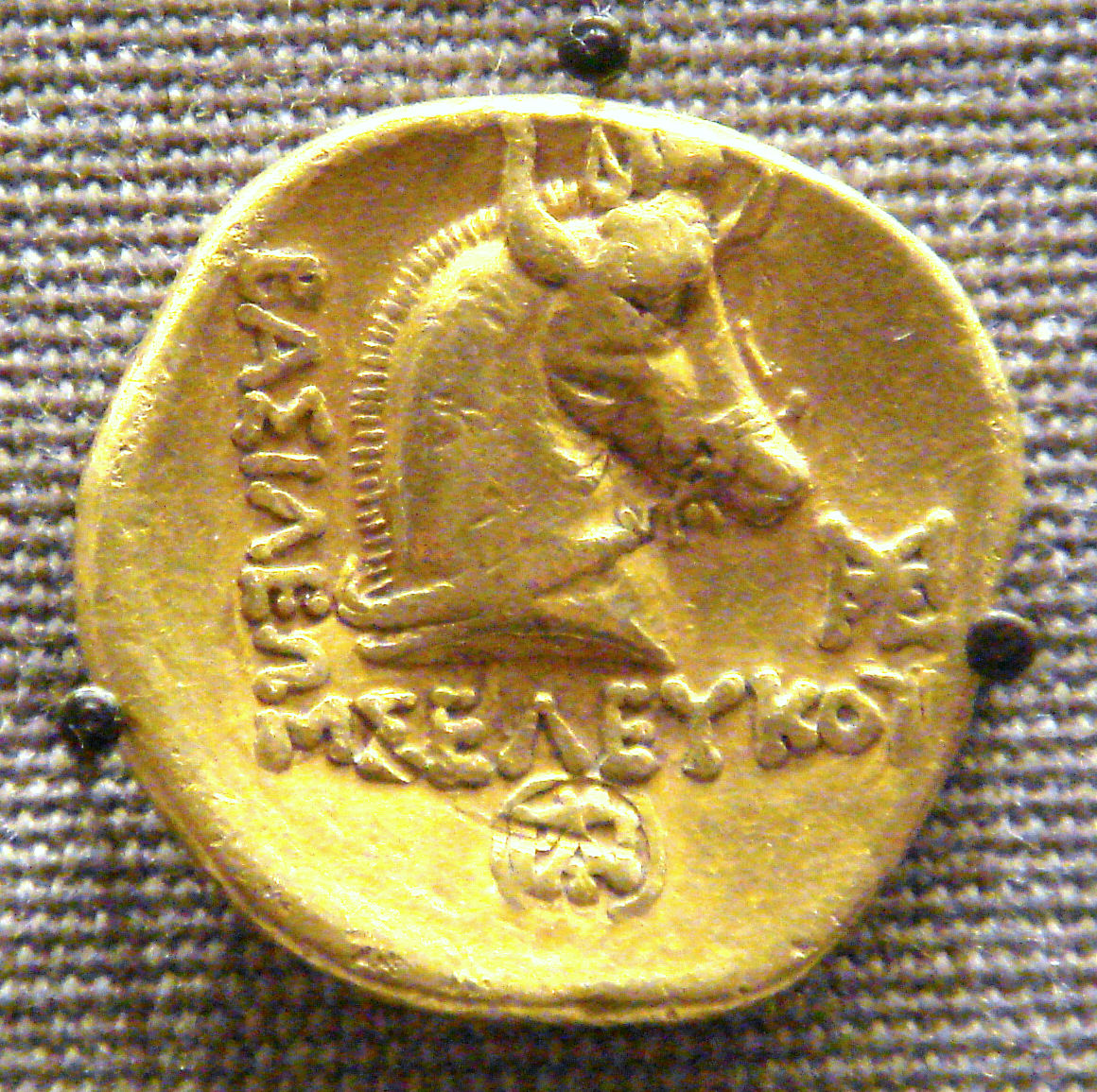 Seleucos_I_Bucephalos_coin